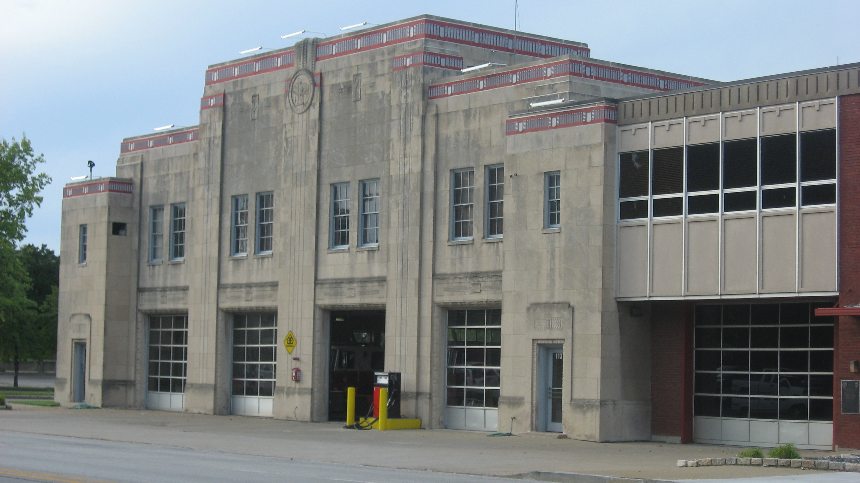 Front of the Louisville Fire Department Headquarters, located at 1135 W. Jefferson Street in the West End of Louisville, Kentucky, United States. Built in 1936, it is listed on the National Register of Historic Places.